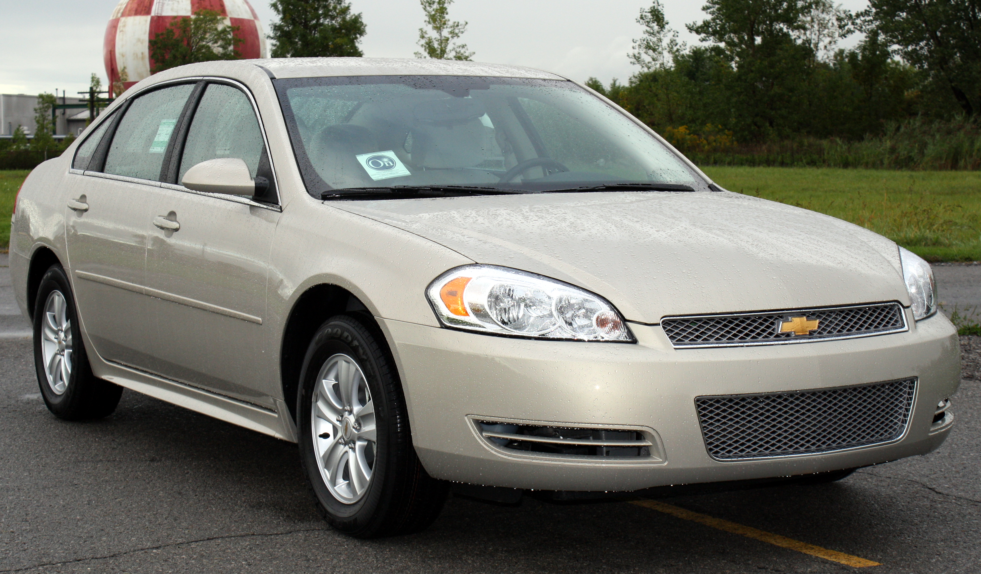 2012 Chevrolet Impala photographed in USA.